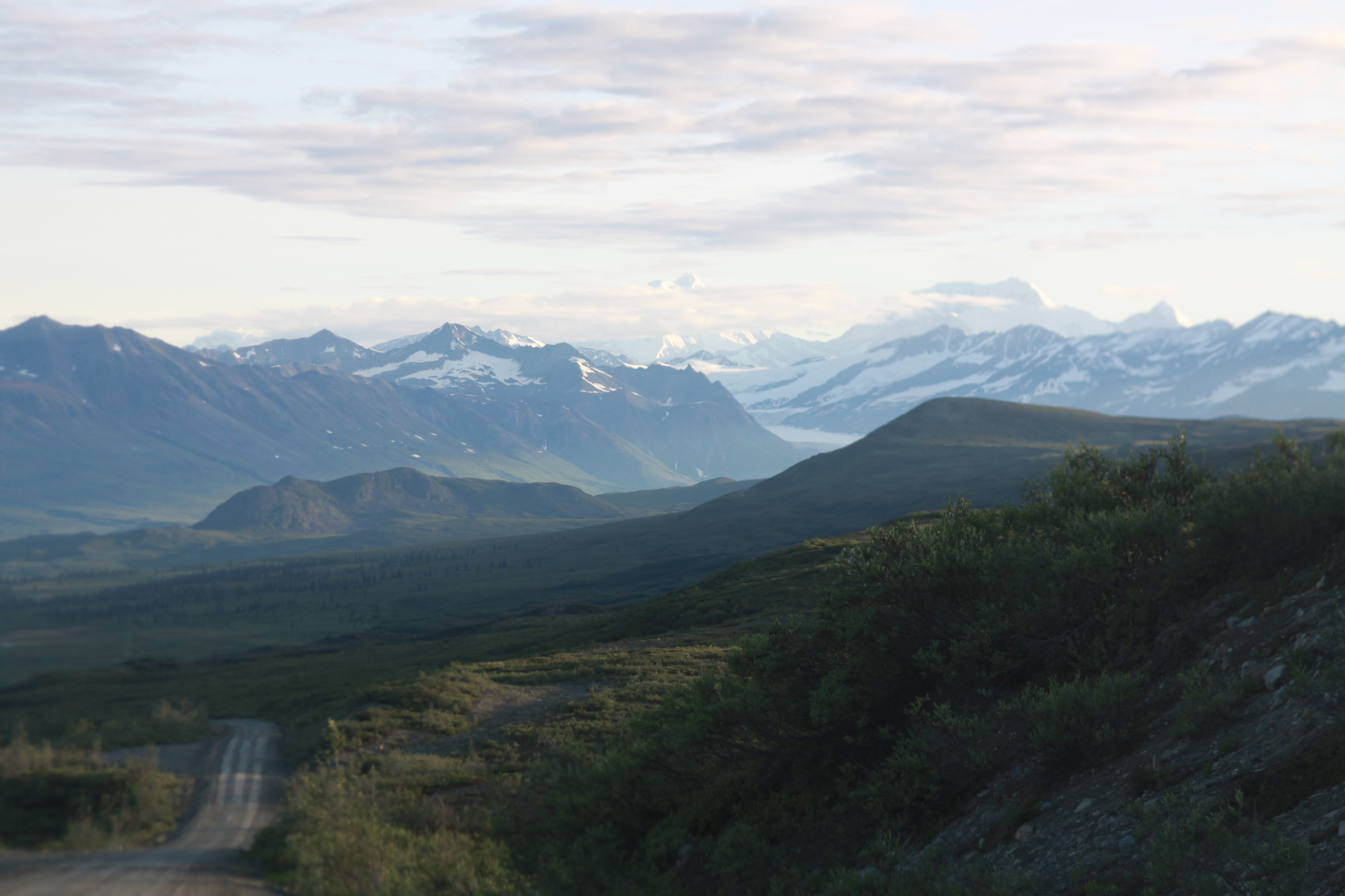 View on the Denali Highway as it reaches the MacLaren River valley. In the background the Alaska Range with Mount Hayes (left, partially clouded) and another nameless peak, sometimes called Moby Dick.